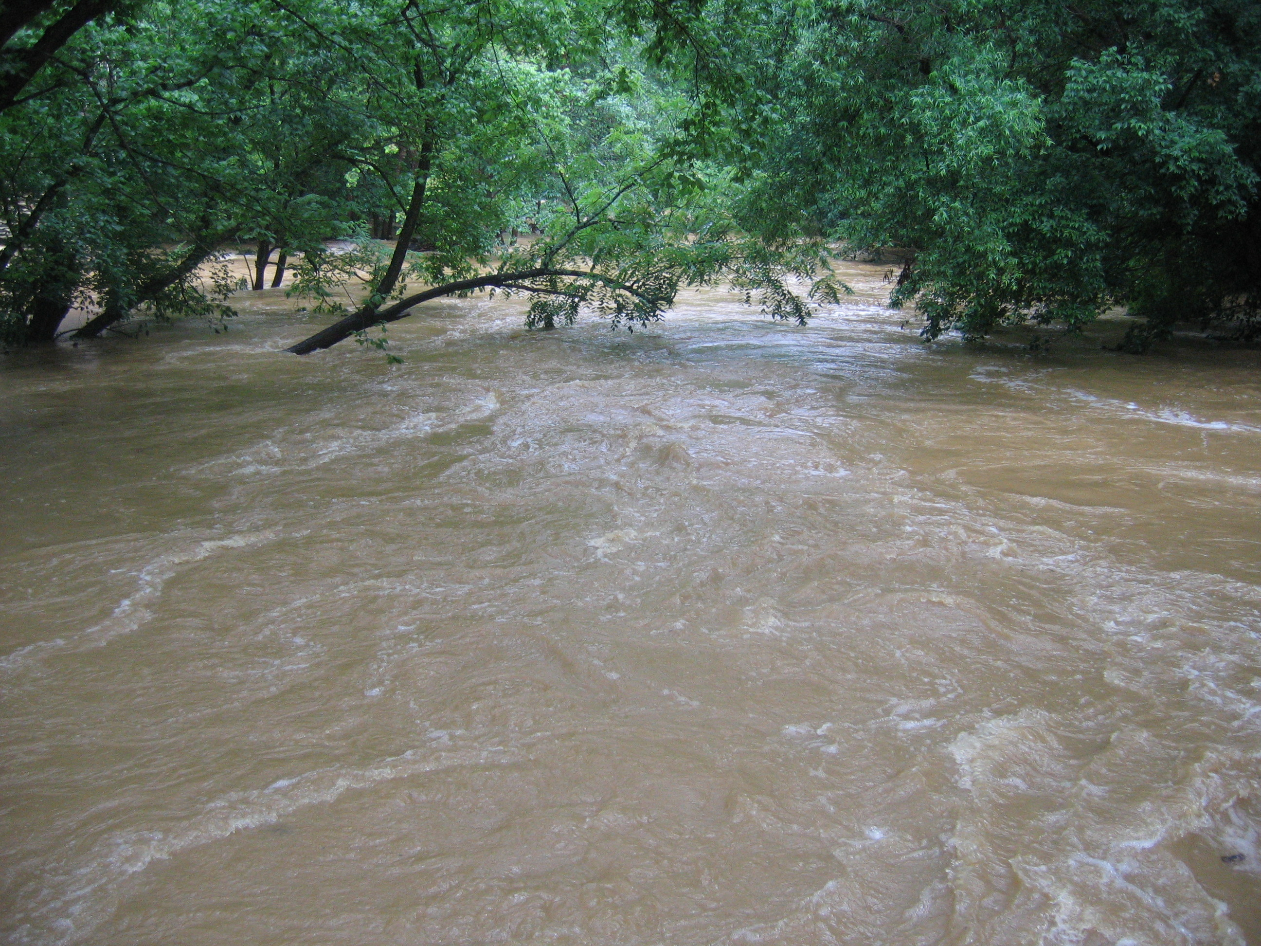 Germantown, MD, June 27, 2006 -- Floodwaters flow rapidly along Seneca Creek as record rains continue to fall across the Mid-Atlantic region. Flash floods are snarling traffic and closing some government buildings across the area. Aaron Skolnik/FEMA